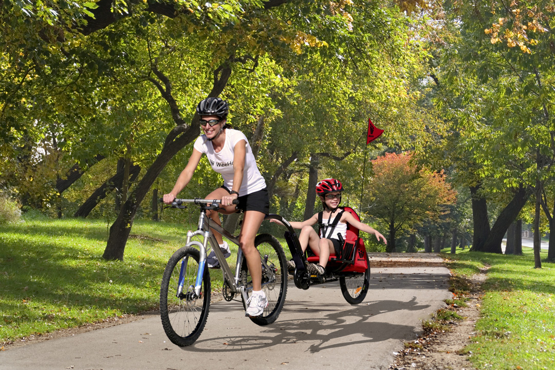 Weehoo Inc., maker of the iGo pedal trailer, child bike trailer, bicycle child trailer, child bike seat trailer